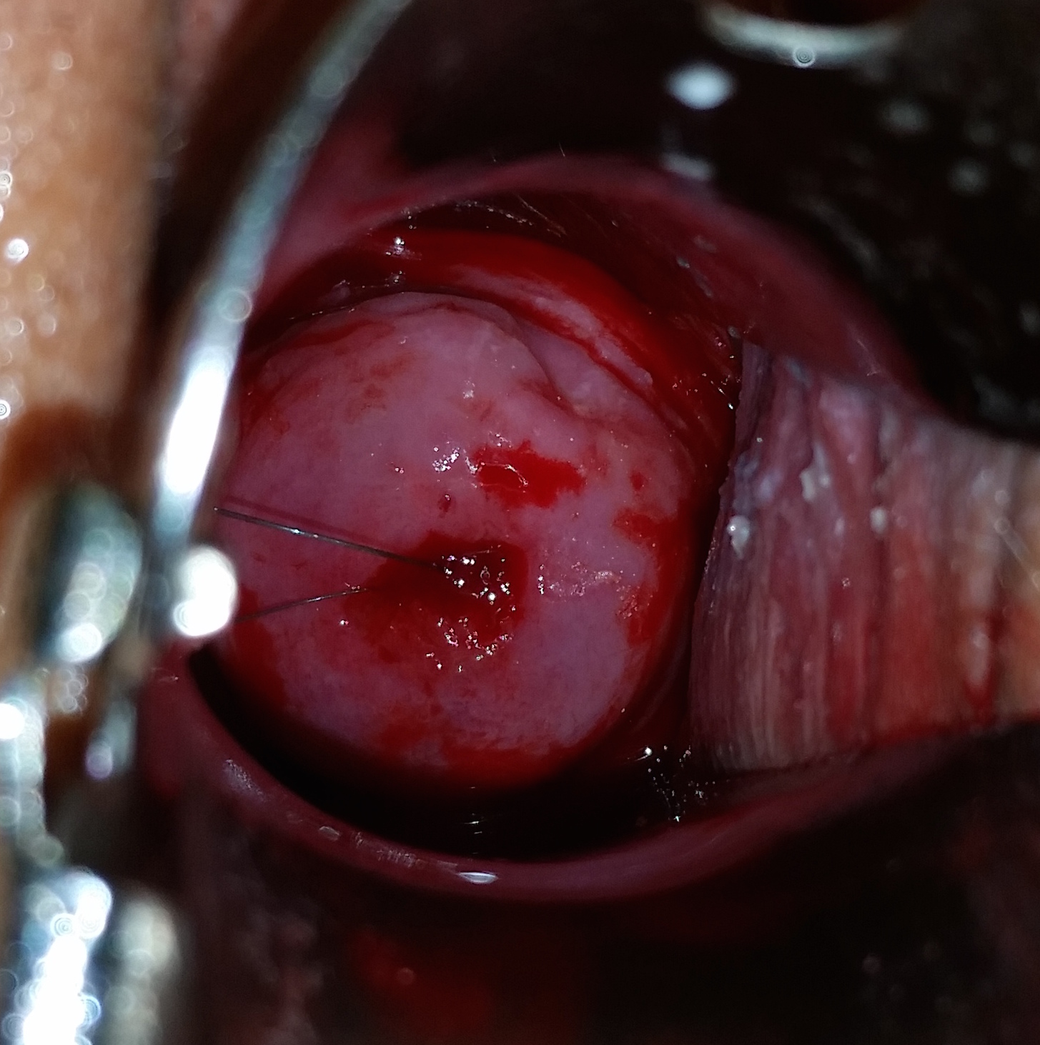 A nulliparous, post-menarchal woman's cervix after hormonal intrauterine device insertion using paracervical nerve block.